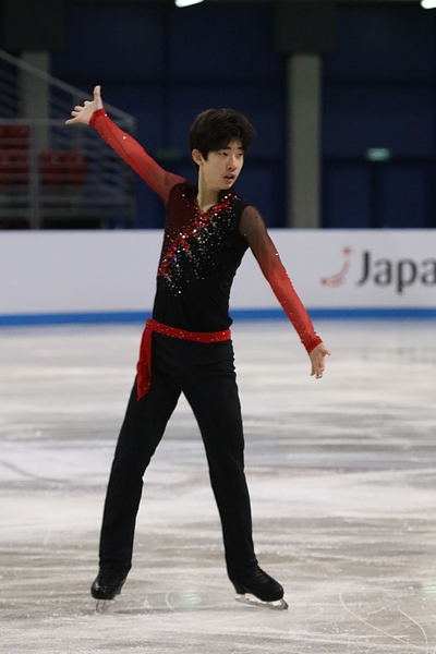 Photos – Junior World Championships 2018 – Men (Younghyun CHA KOR – 19th Place)